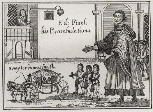 Line engraving after a woodcut caricature of Edward Finch (fl. 1630-1641), English Anglican priest. In 1640 the woodcut from which the later version was copied represented a journey of his to Hammersmith with a party of supposed loose characters.